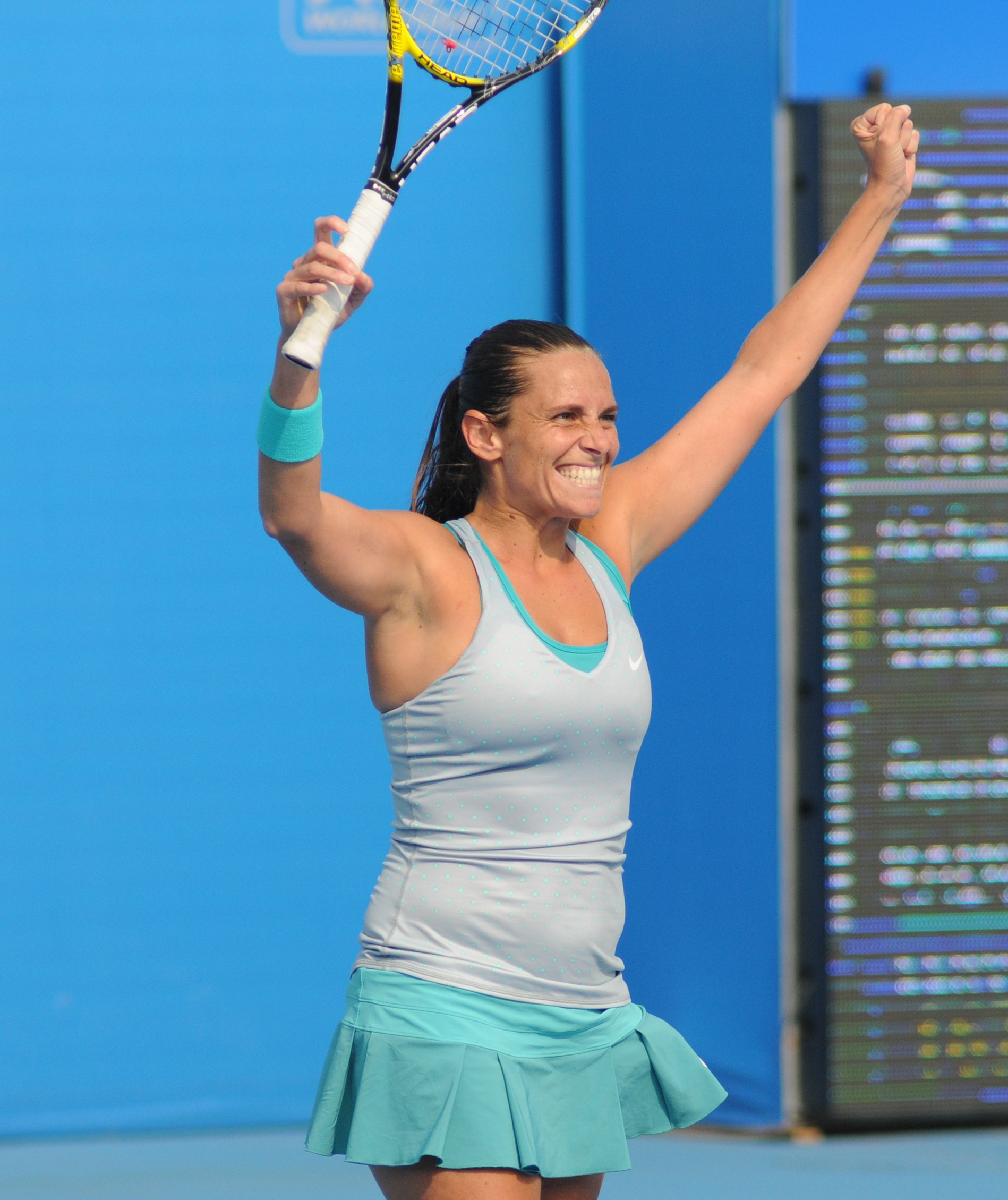 Roberta Vinci at the 2014 China Open